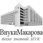 Official logo of student's organization VnukiMakarova